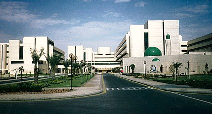 King Fahad Medical City. Riyadh, Saudi Arabia. The largest project with the use of the Jurassic limestone. The entire surface of the stone about 340,000 sqm. Surface of the plates: outside sandblasted, inside polished and honed.